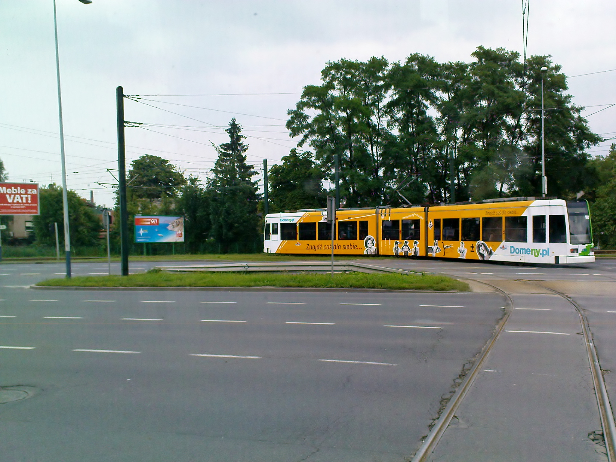 Kraków - tram Bombardier NGT6 twisting from Nowosądecka street to Wielicka street